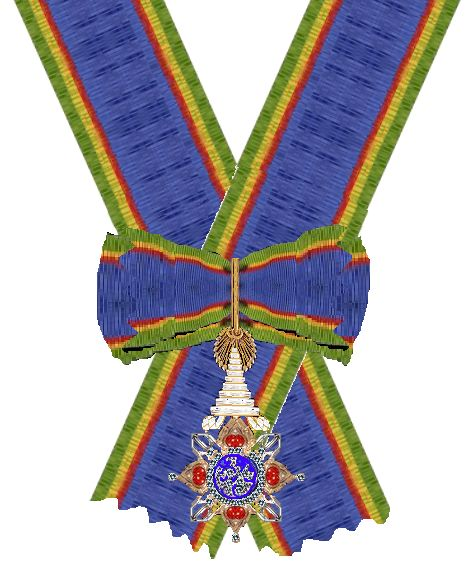 Order of the Crown, Thailand